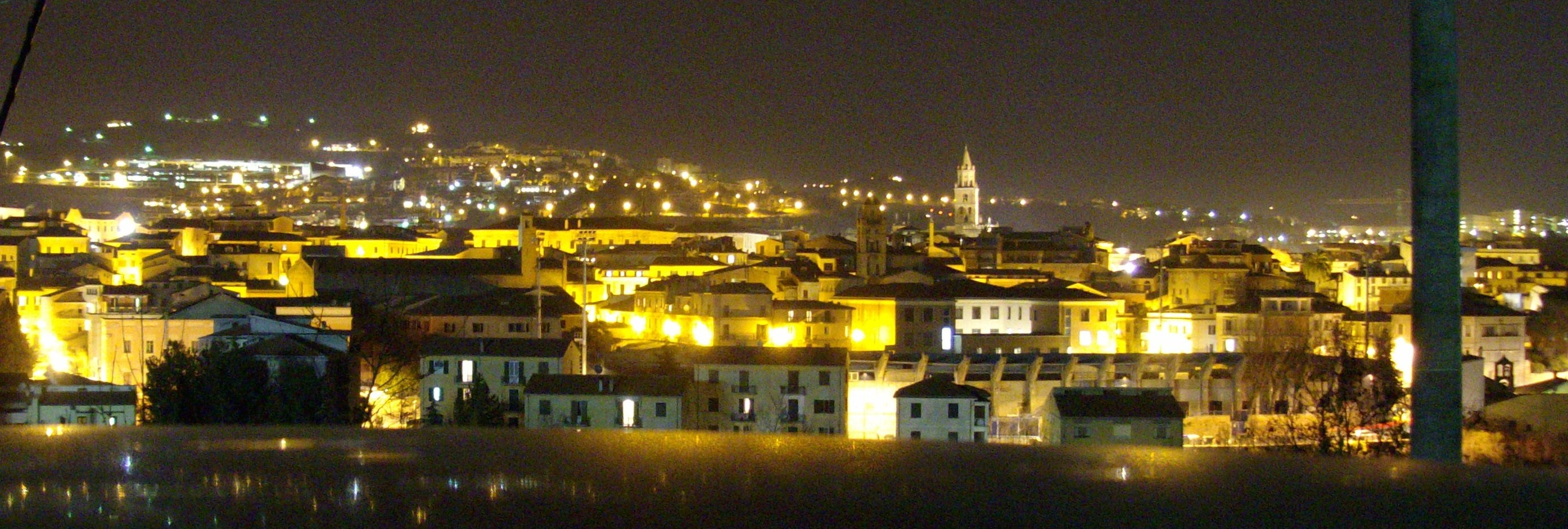 View of the city of Teramo at night